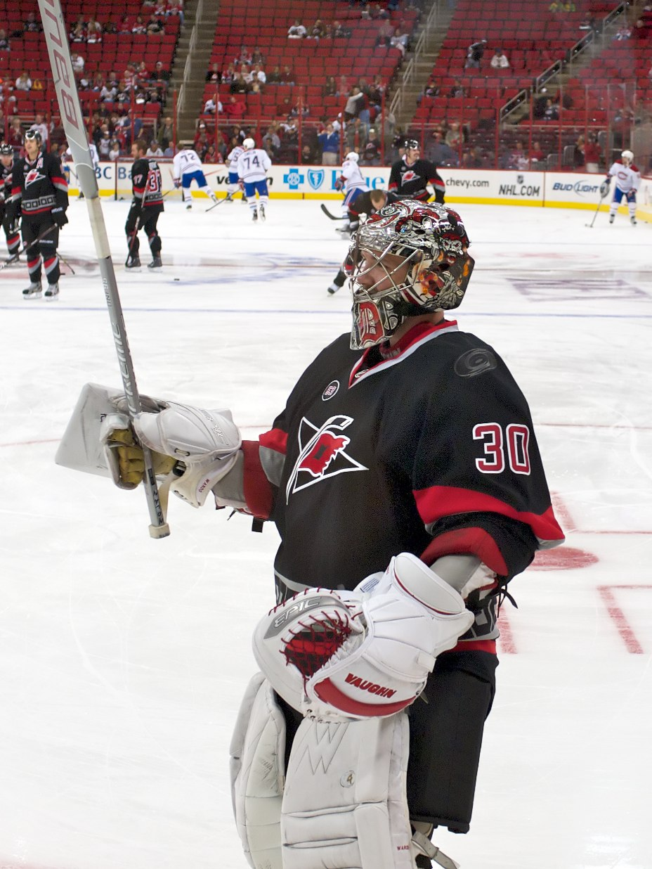 Cam Ward of the Carolina Hurricanes